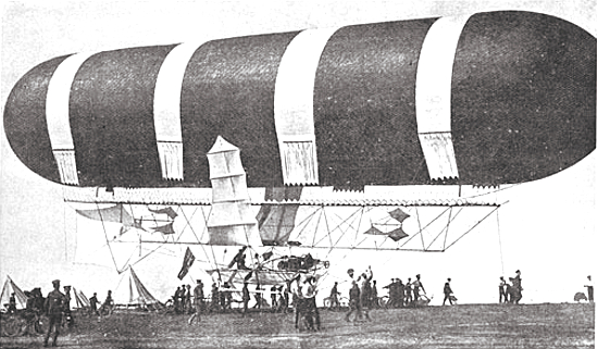 British Army Dirigible No 1, a semi-rigid airship that became Britain's first military aircraft when she flew on 10 September 1907.